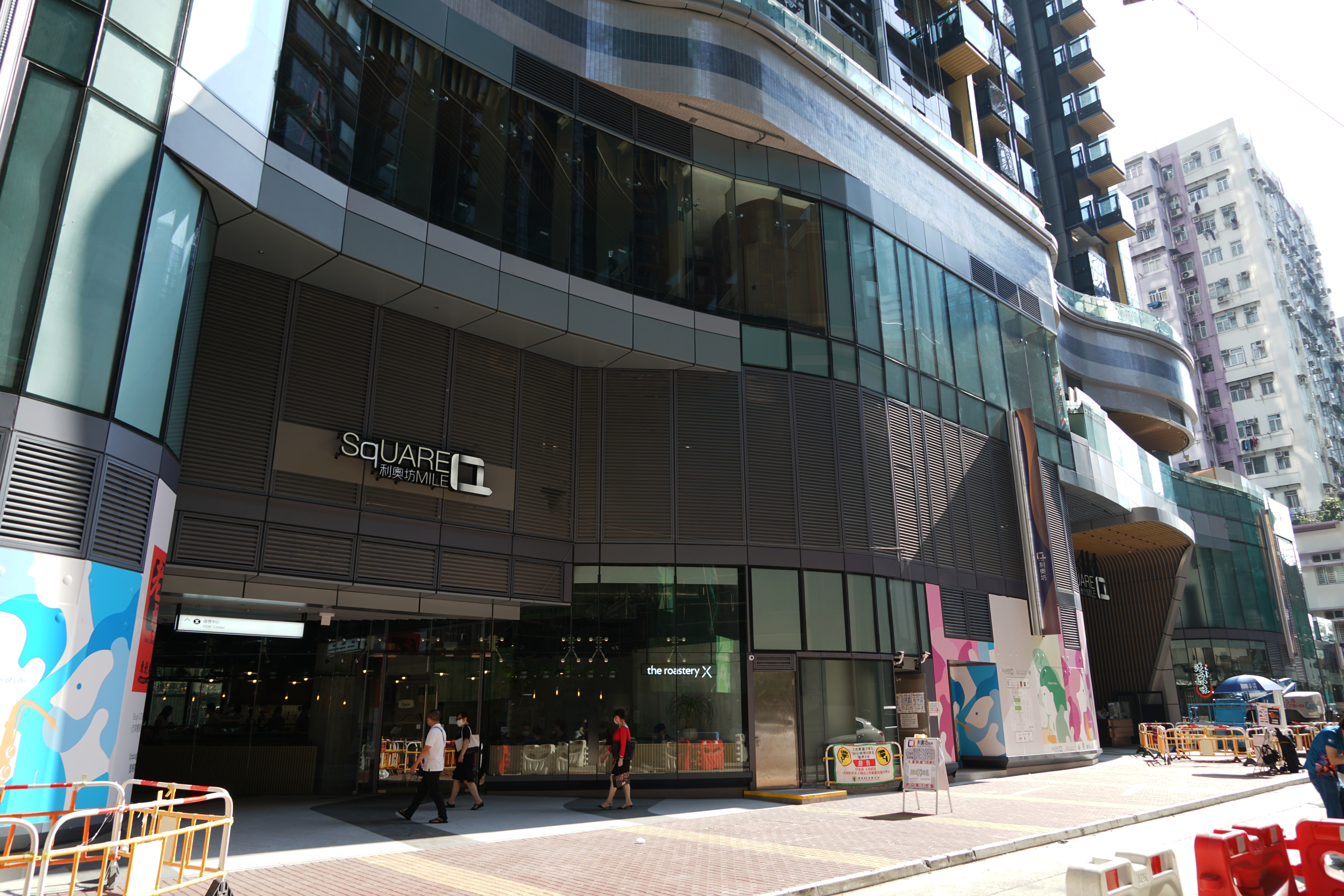 Square Mile, Hong Kong.